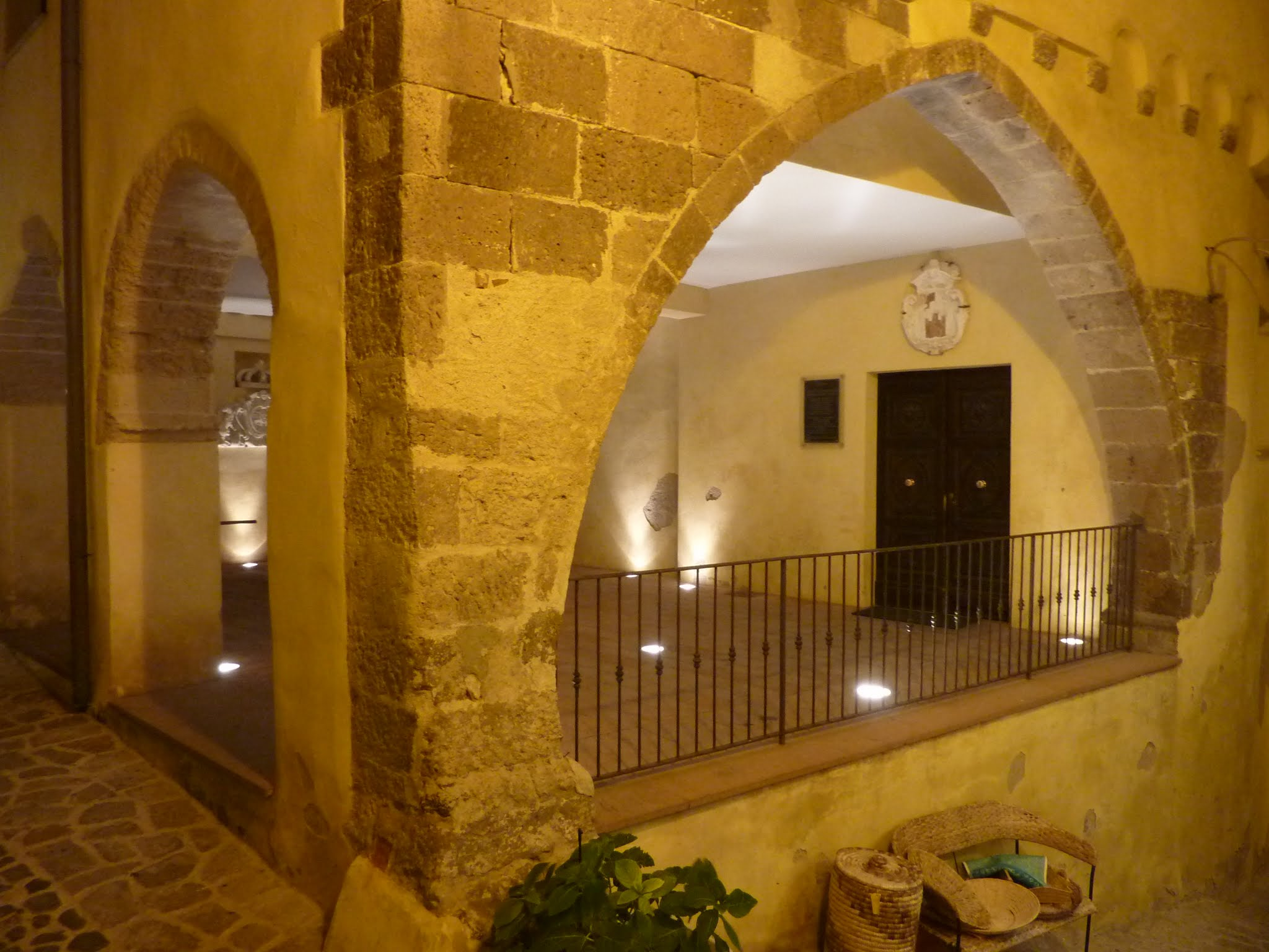 Cityhall (commune) of Castelsardo